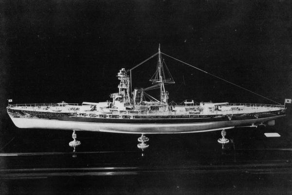 Model of battleship "Kaga" of the Imperial Japanese Navy, port view. It is made in Kawasaki Shipyards and opened to the public around 1925.